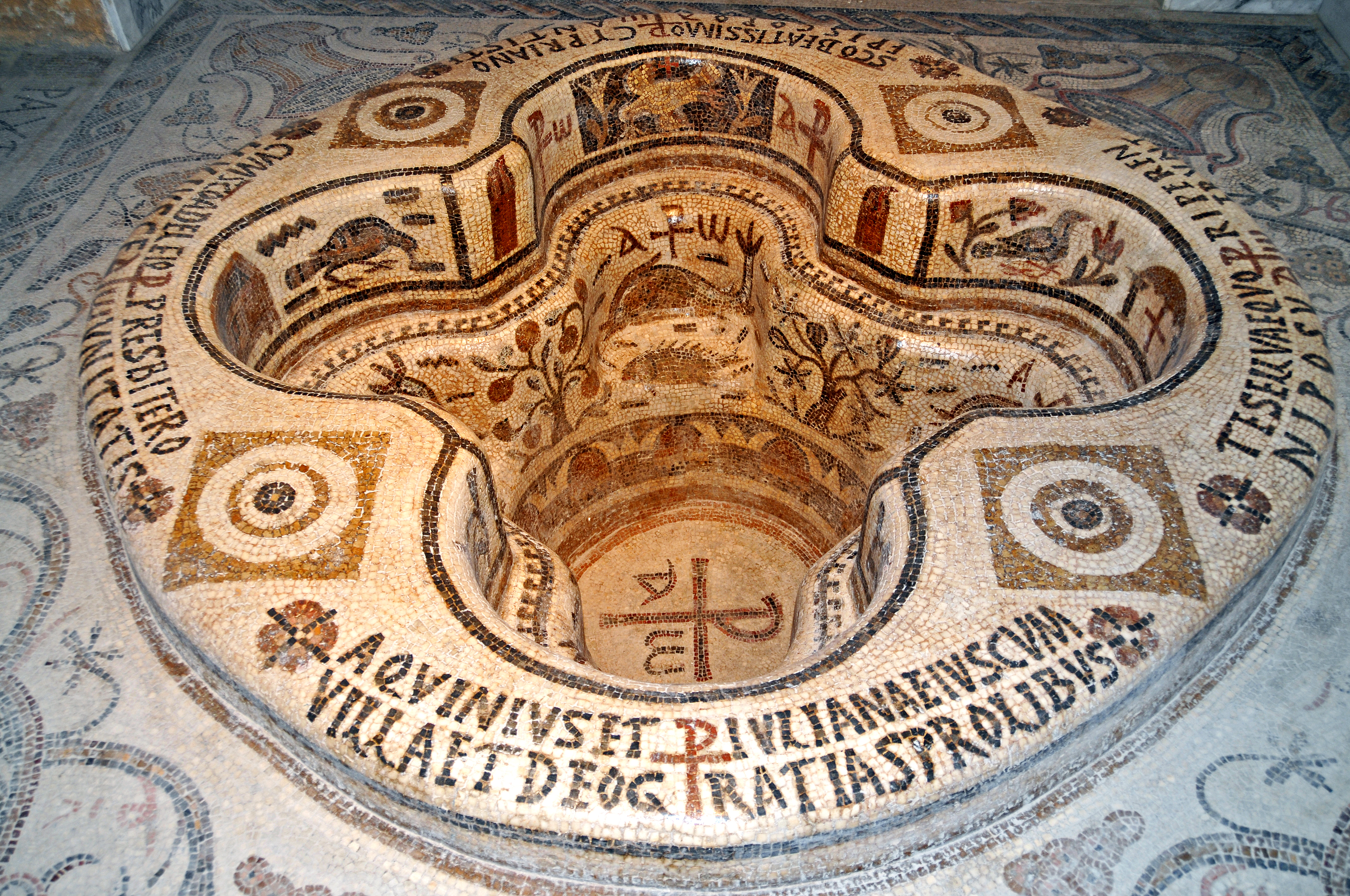 PLEASE, NO invitations or self promotions, THEY WILL BE DELETED. My photos are FREE to use, just give me credit and it would be nice if you let me know, thanks. This is in memory of the 20 tourists and 3 others who were killed by terriorists at the Bardo Museum, Tunisia. The museum is "a jewel of Tunisian heritage." Its exhibits showcase Tunisian art, culture and history, and it boasts a collection of mosaics, as well as marble sculptures, furniture, jewels and other items. The Demna Baptistry - 6th century AD - in the Bardo Museum This early Christian baptismal font is richly decorated with mosaics discovered in Demna. It is one of the finest Christian mosaics to have been found in Africa, and even throughout the Roman world.